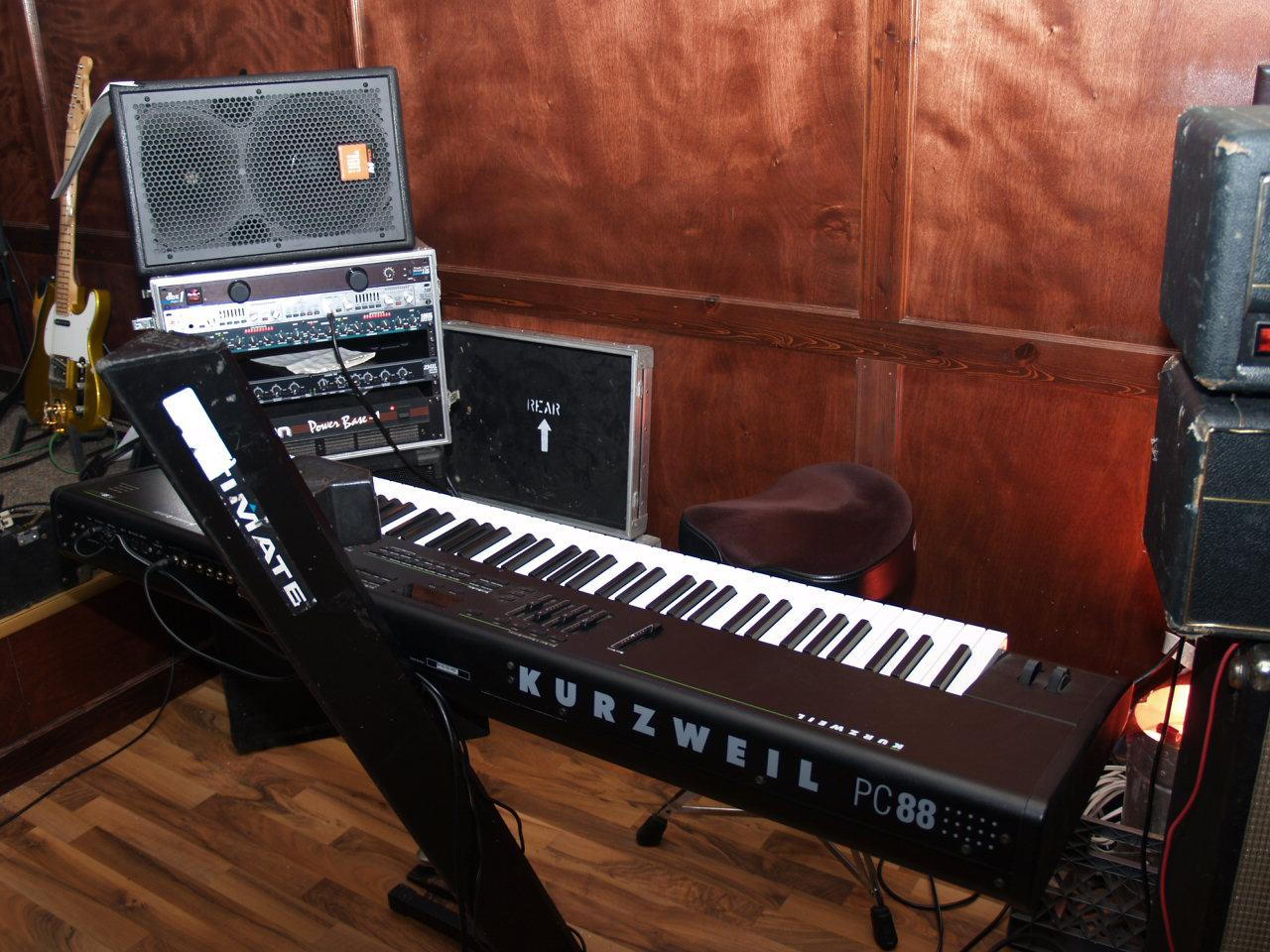 Kurzweil PC88 bob morton's gear, Billy Barnett @ Crehans, mardi gras 2006